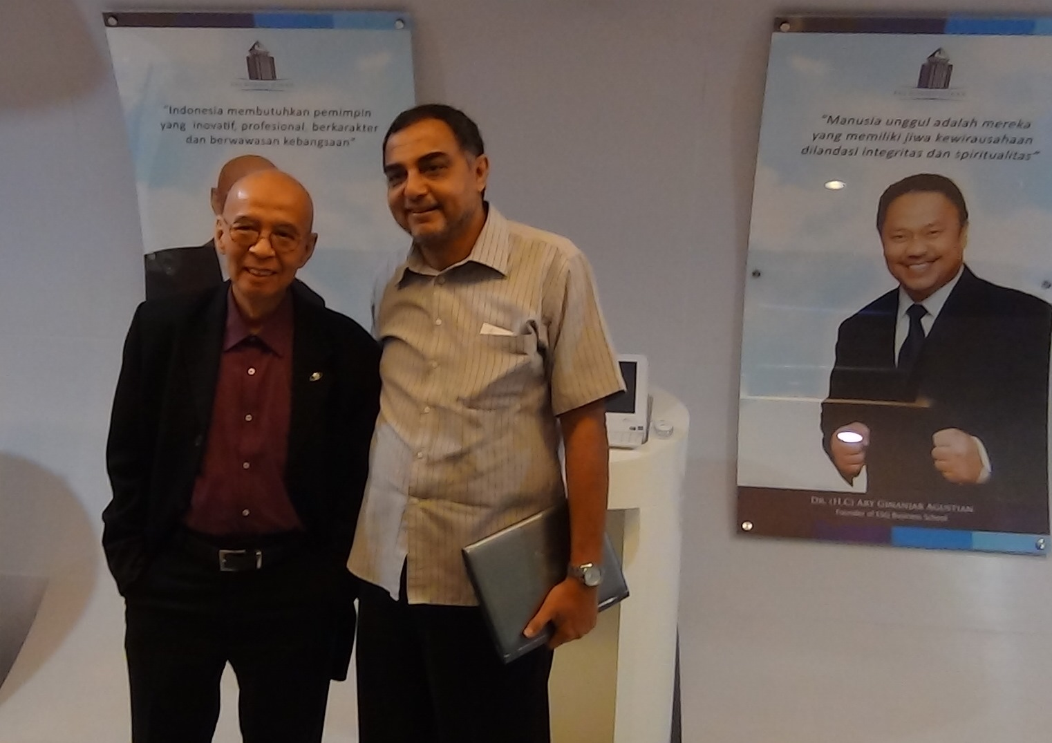 A picture of Prof. Naya and Mr. Haidar Baqir at ESQ Business School